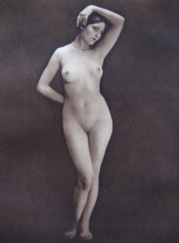 This was published as a collection of 100 photogravures by Librairie des Arts Décoratifs.